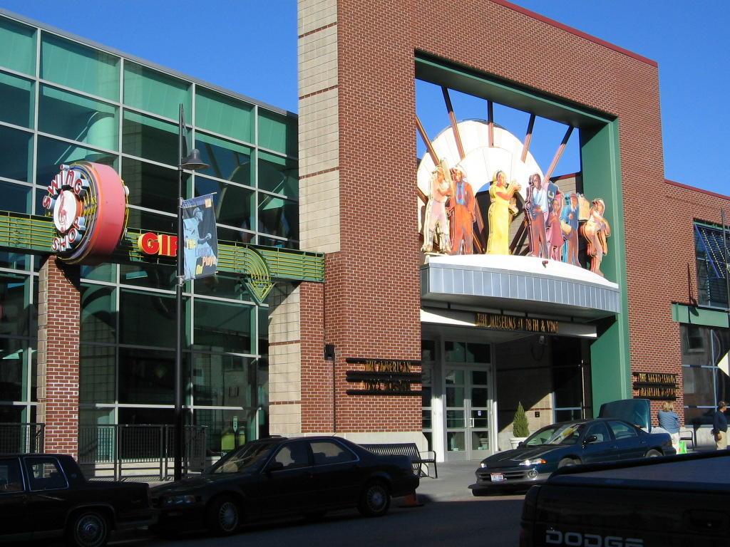 Negro League Baseball Museum and American Jazz MuseumMuseum